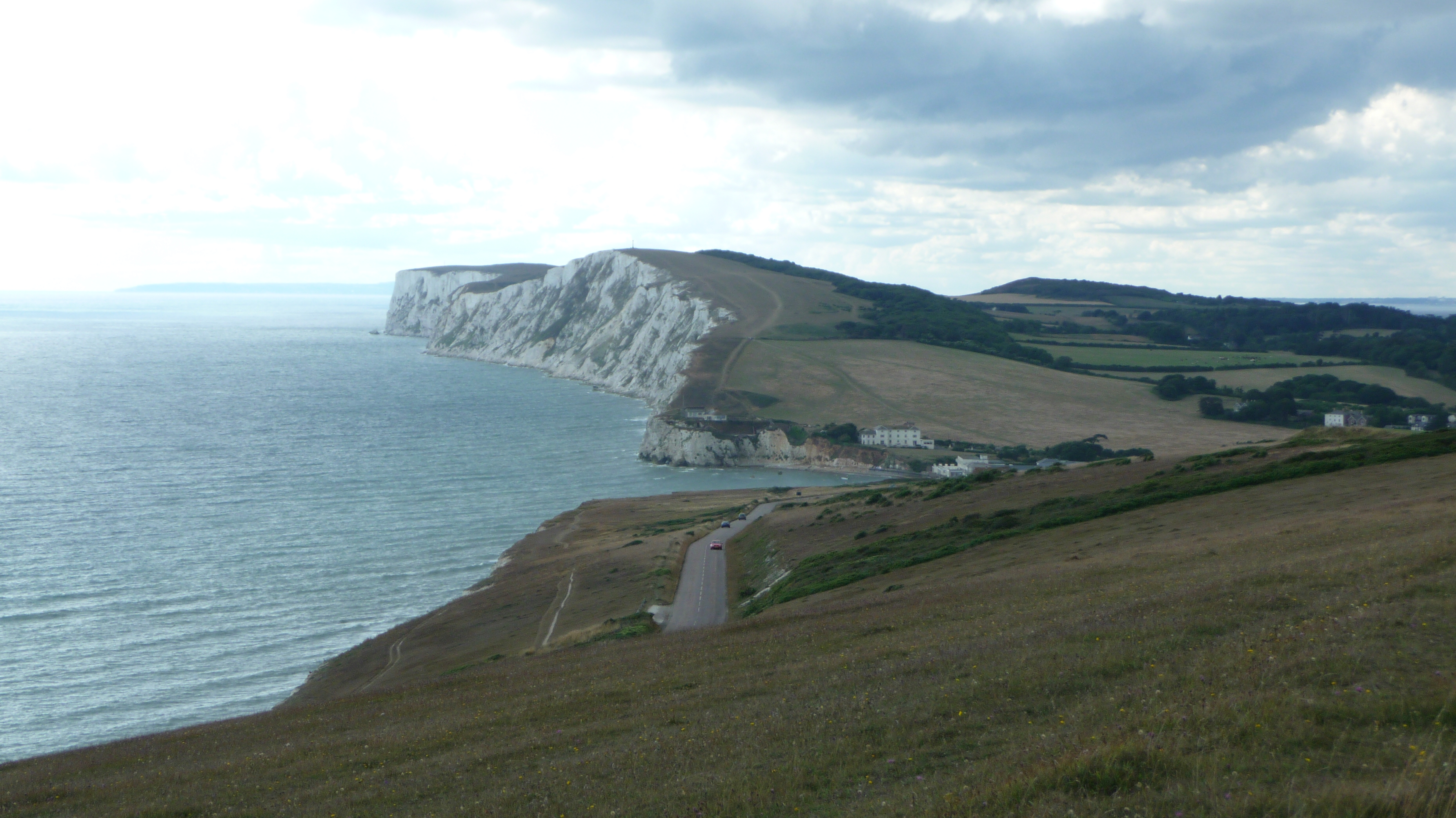 The view west from the top of Afton Down, Isle of Wight. Looking west, the Military Road can be seen descending towards Freshwater Bay. Freshwater Bay can also be seen, and behind that rises Tennyson Down, with its chalk cliffs beside the English Channel.